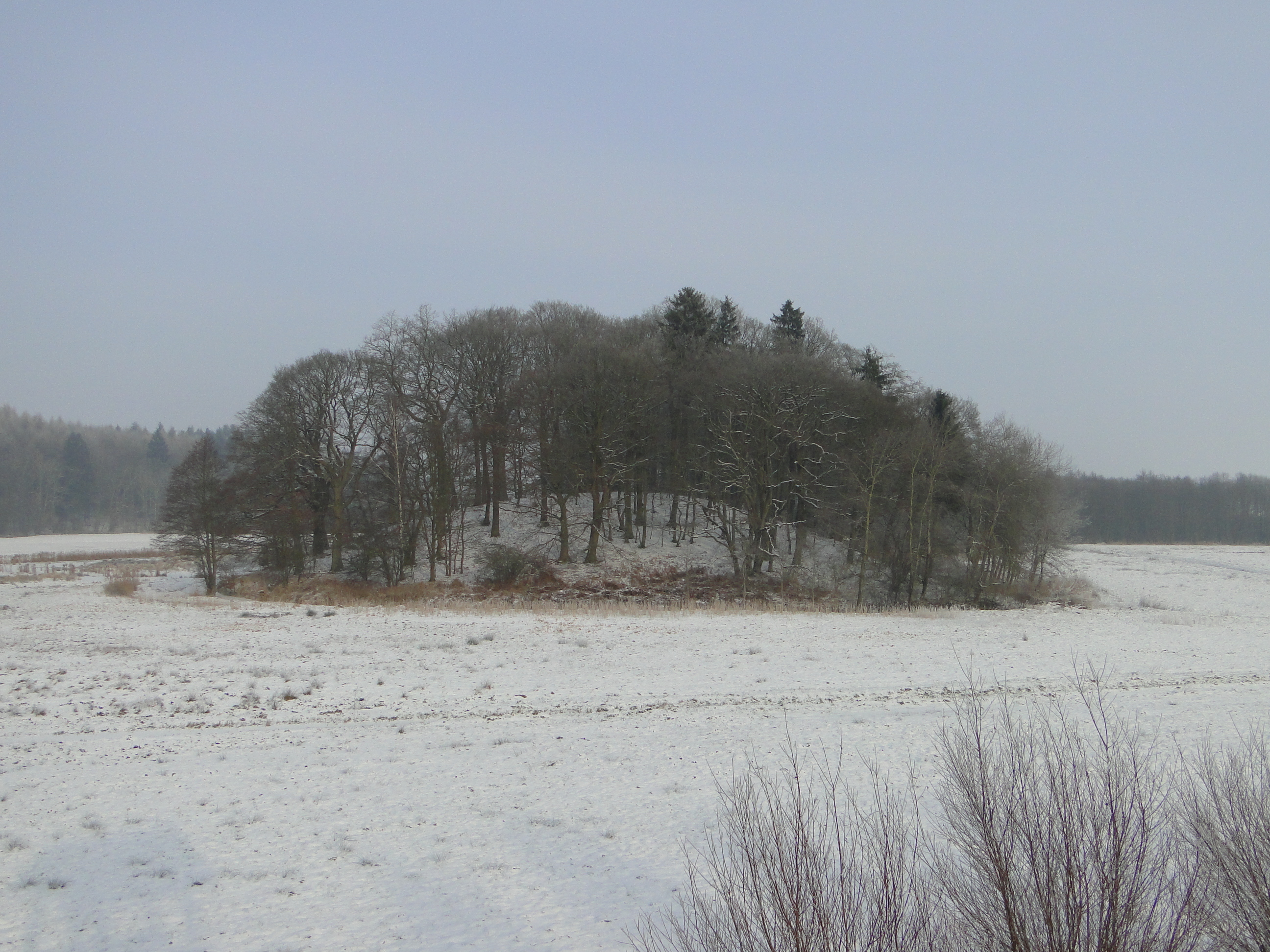 Nature reserve Moorrinne von Klein Salitz bis zum Neuenkirchener See in Neuenkirchen (Zarentin am Schaalsee), district Ludwigslust-Parchim, Mecklenburg-Vorpommern, Germany